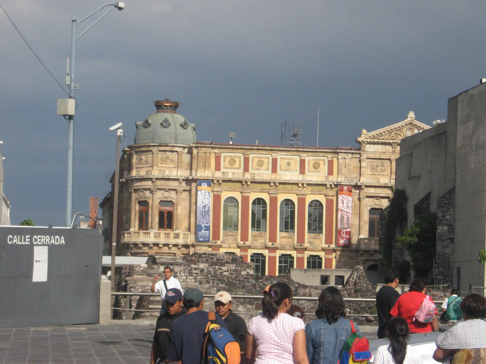 Palacio de la Autonomia de UNAM (Palace of UNAM's Autonomy) located off Moneda Street east of the Zocalo in Mexico City